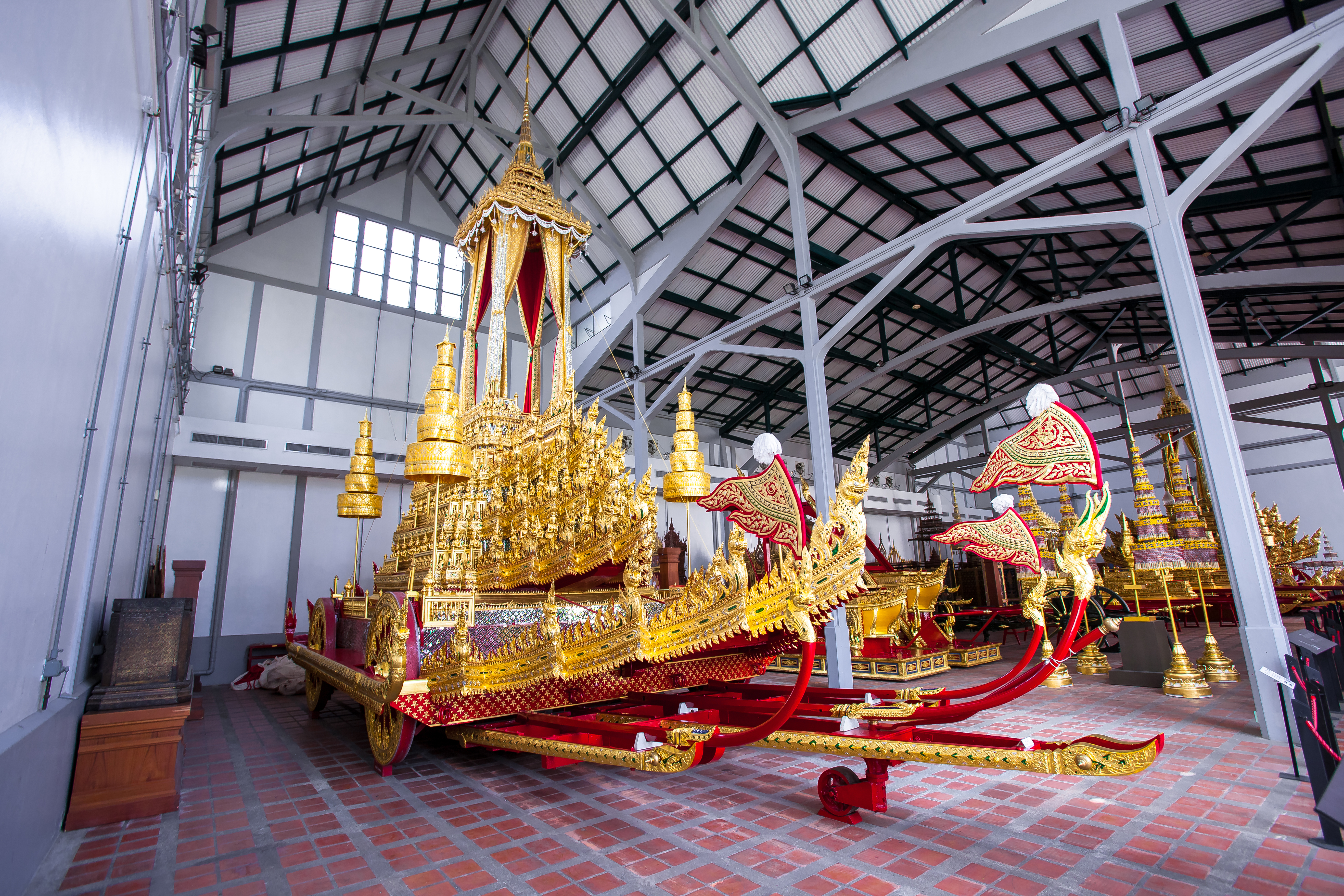 Great Chariot of Victory, Bangkok National Museum or in Thai called Phra Maha Phichai Ratcha Rot.